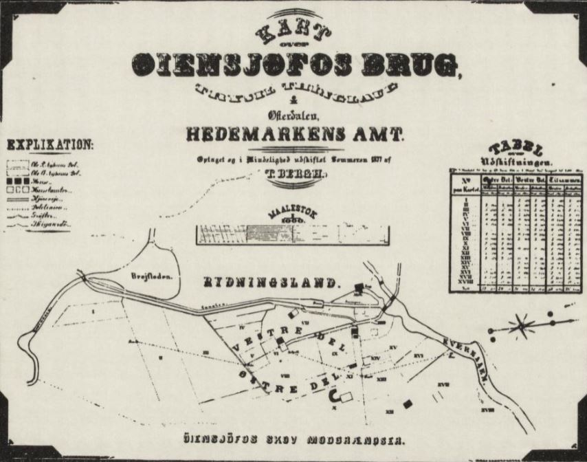 Map of Øiensjøfoss ironworks in Trysil, Norway